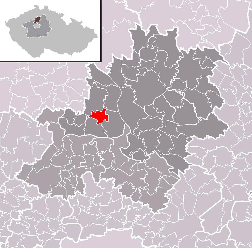 Location of Býkev municipality within Mělník District and administrative area of Mělník as a Municipality with Extended Competence.